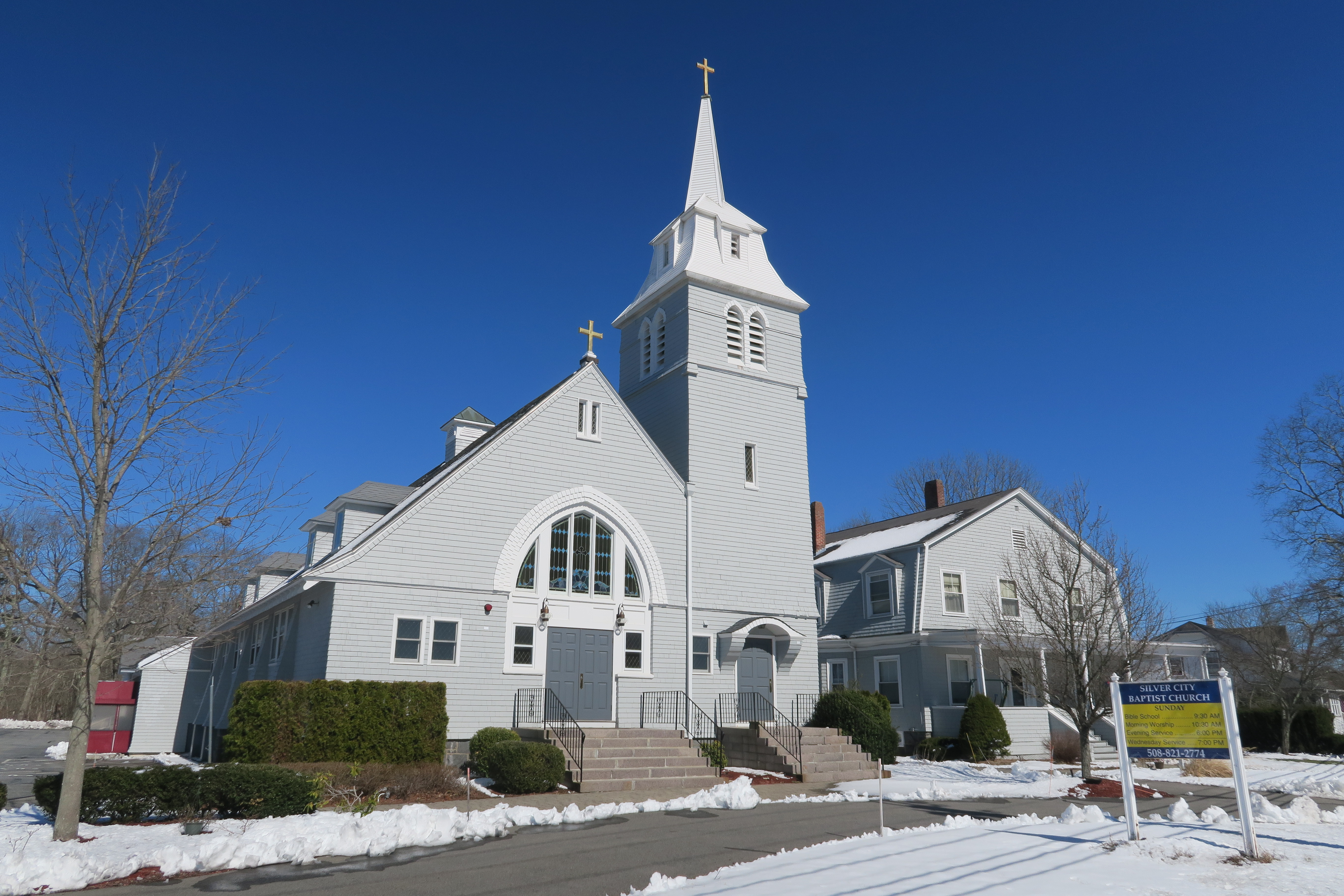 Silver City Baptist Church, Oakland Massachusetts